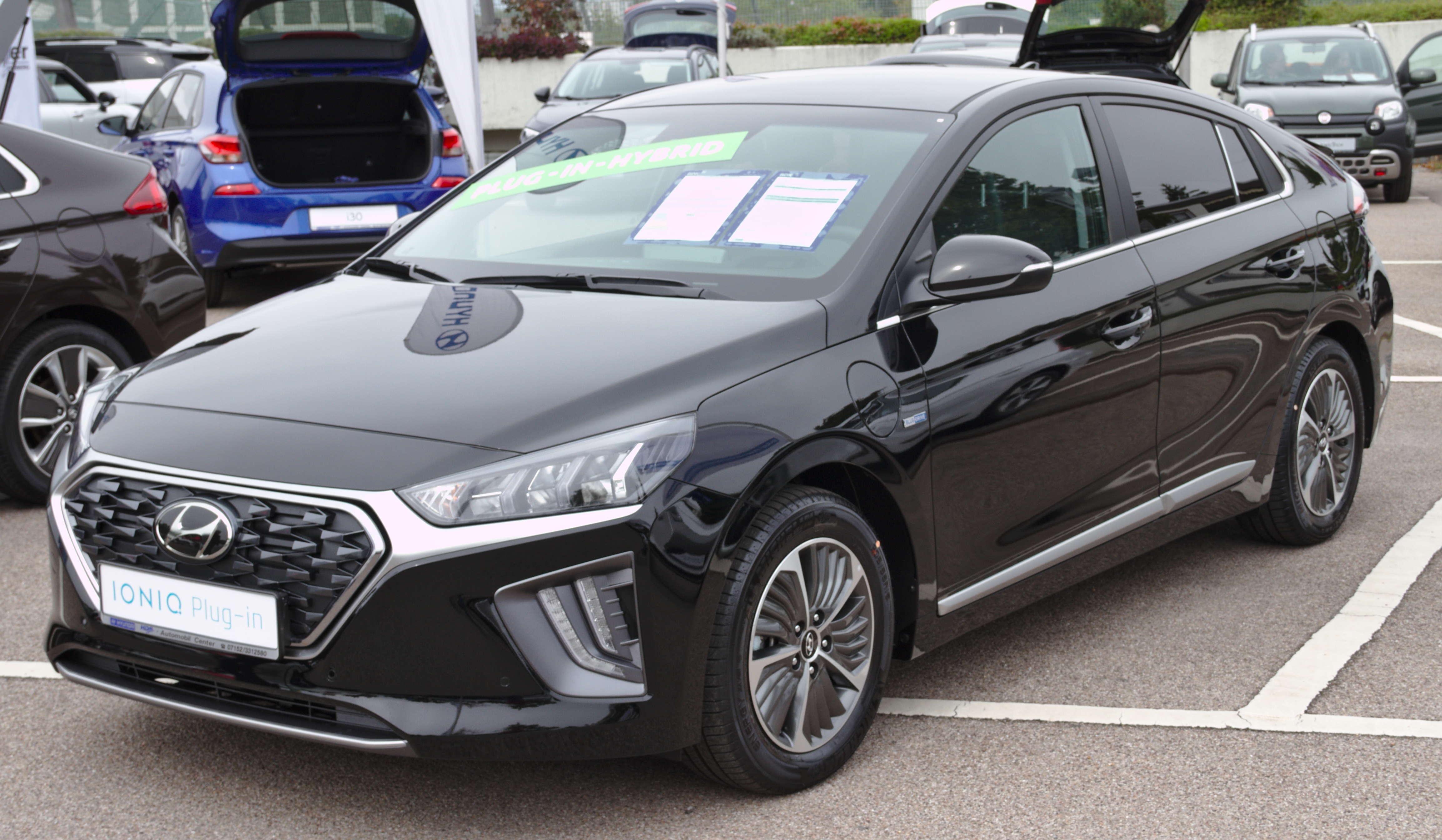 Hyundai_Ioniq_Plug-in at Leonberger Autoschau 2019